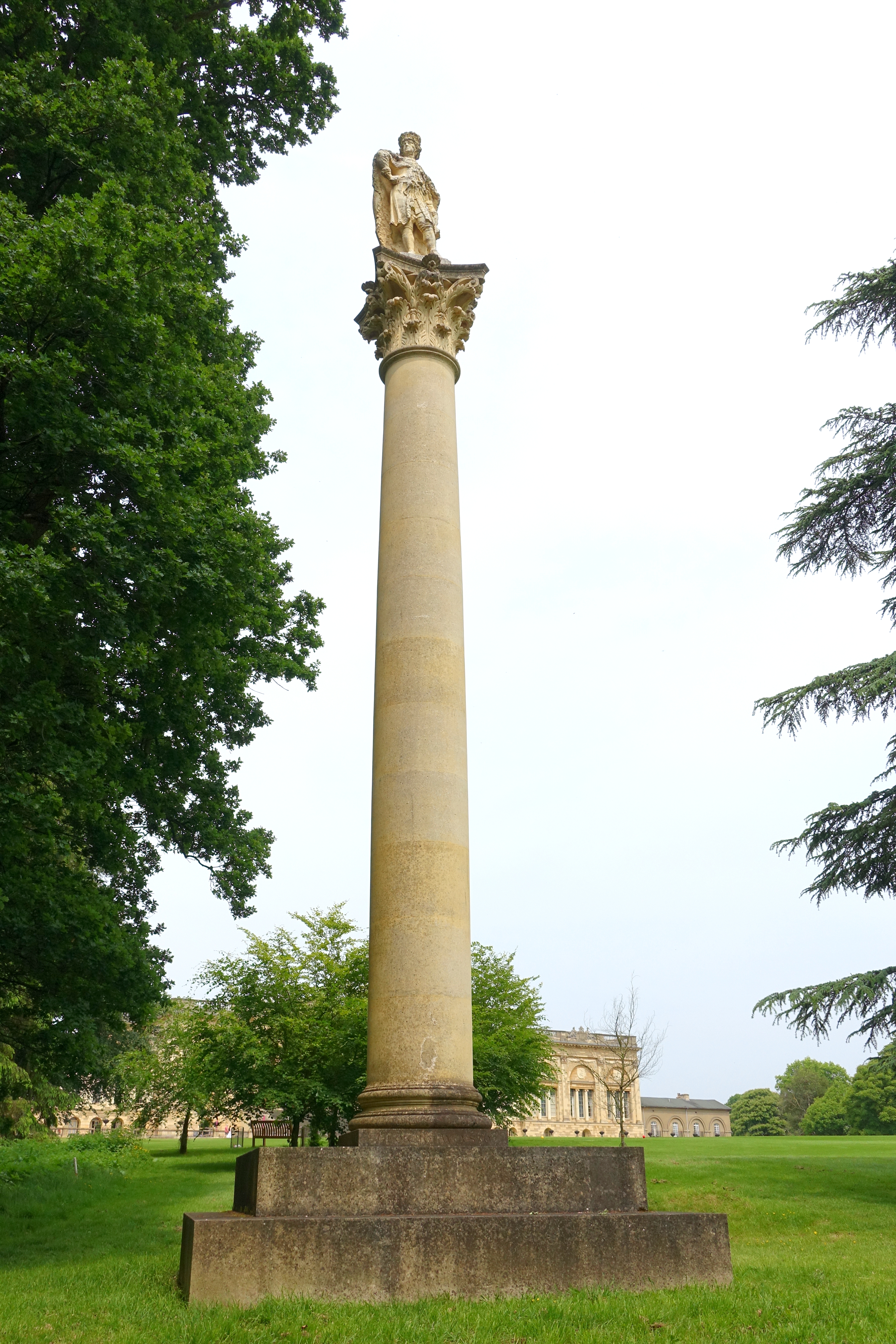 King's Pillar (Statue of King George II), Stowe - Buckinghamshire, England.